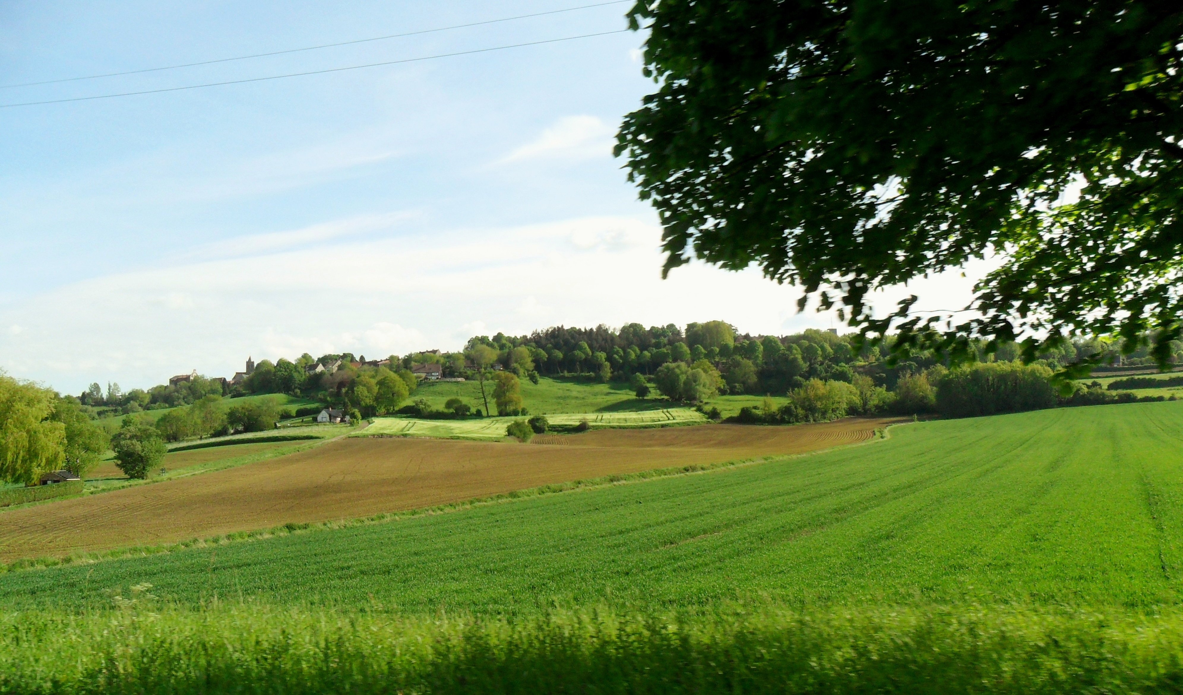 Near Cassel